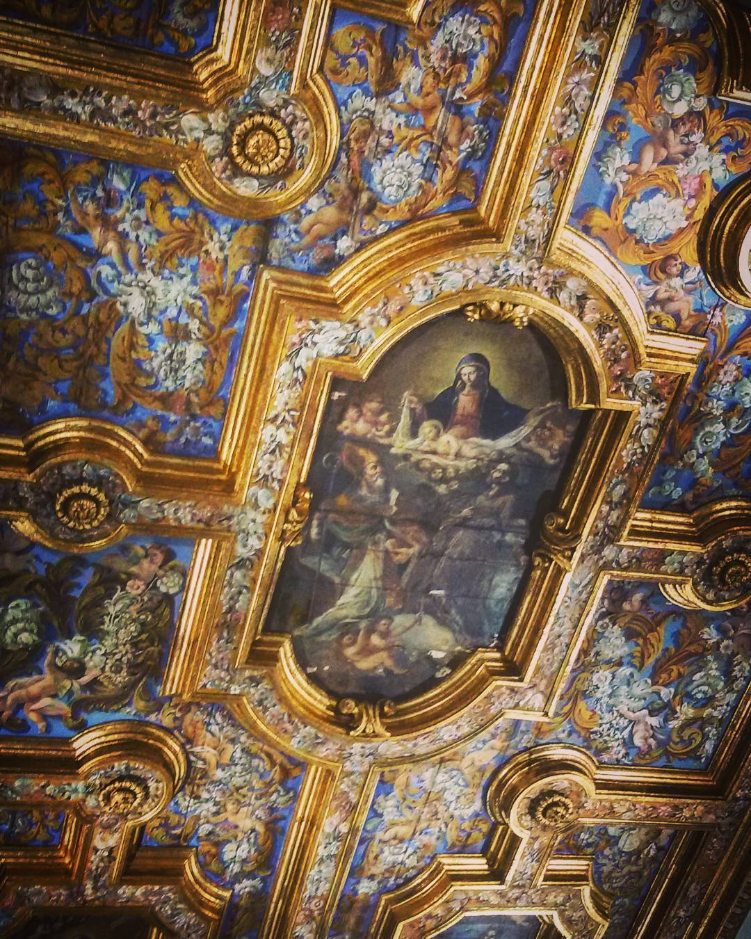 Cassettone ligneo della Chiesa Parrocchiale di San Tammaro.